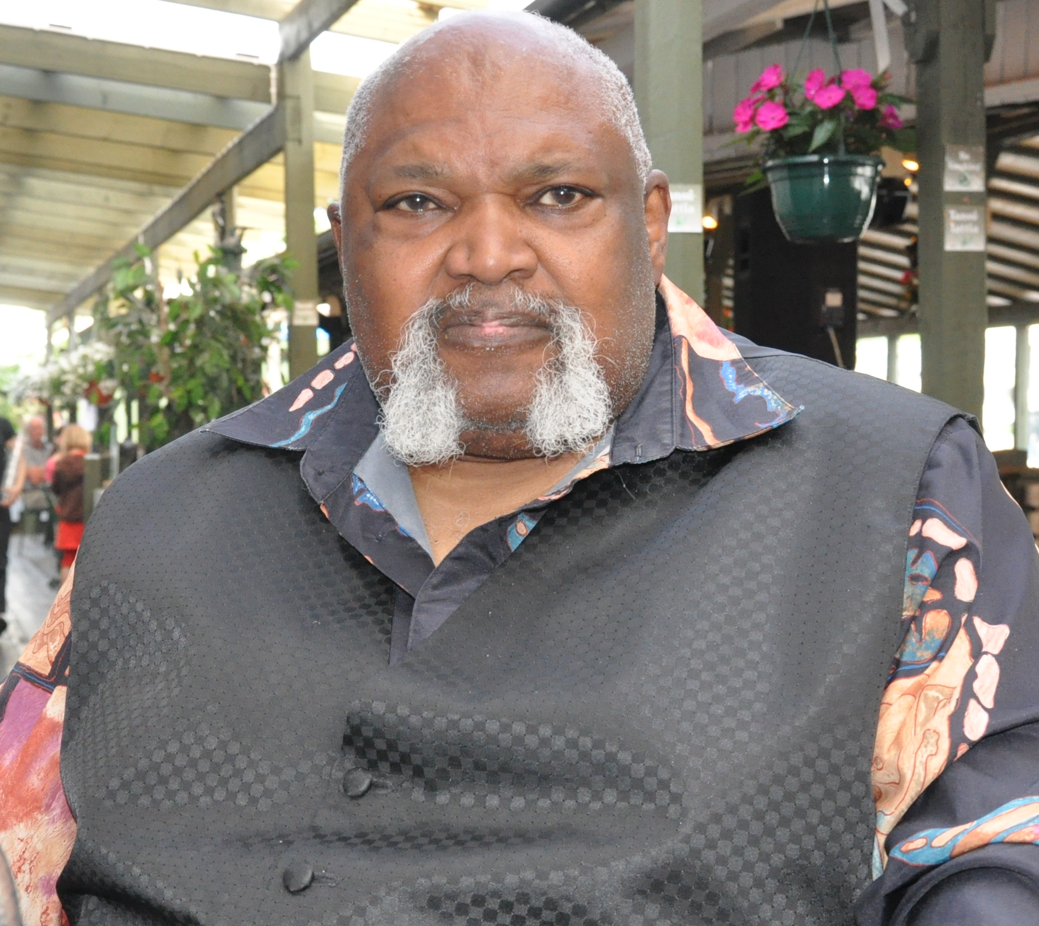 American jazz trumpeter Ted Curson before performing at restaurant Vaakahuone, in Turku, Finland 2009.